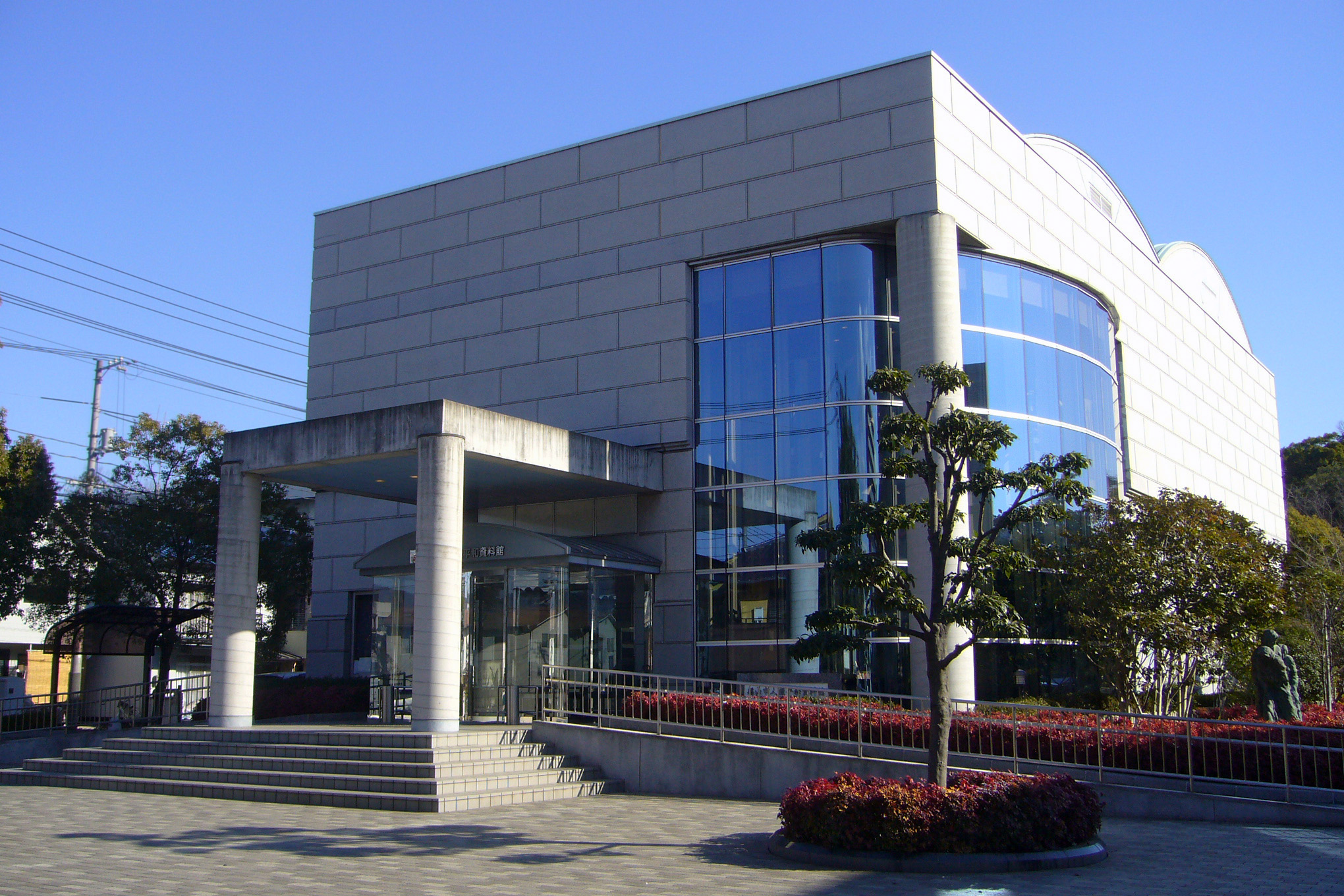 Fukuyama-shi jinken-heiwa shiryokan in Fukuyama, Hiroshima prefecture, Japan